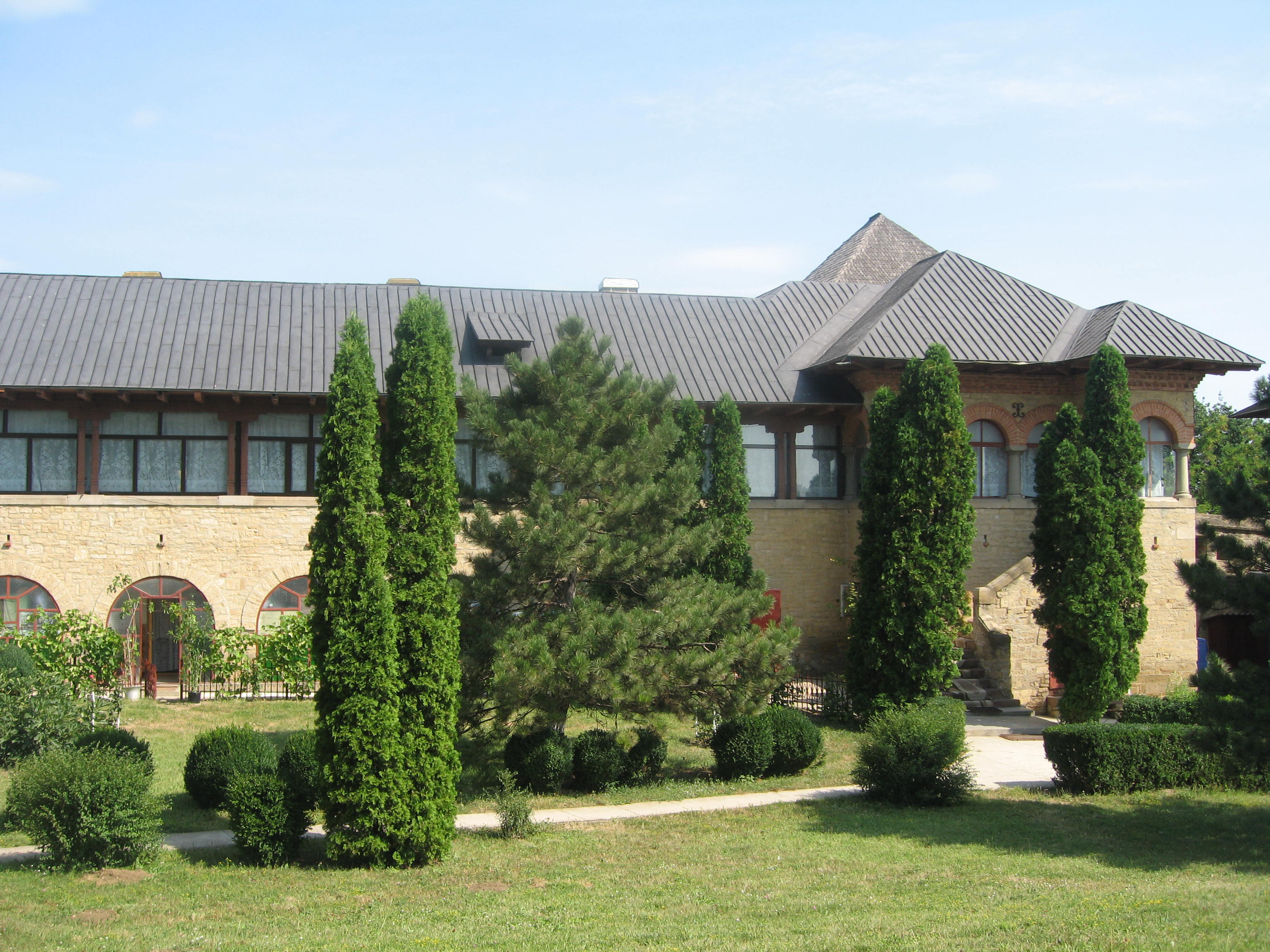 Mănăstirea Cetăţuia